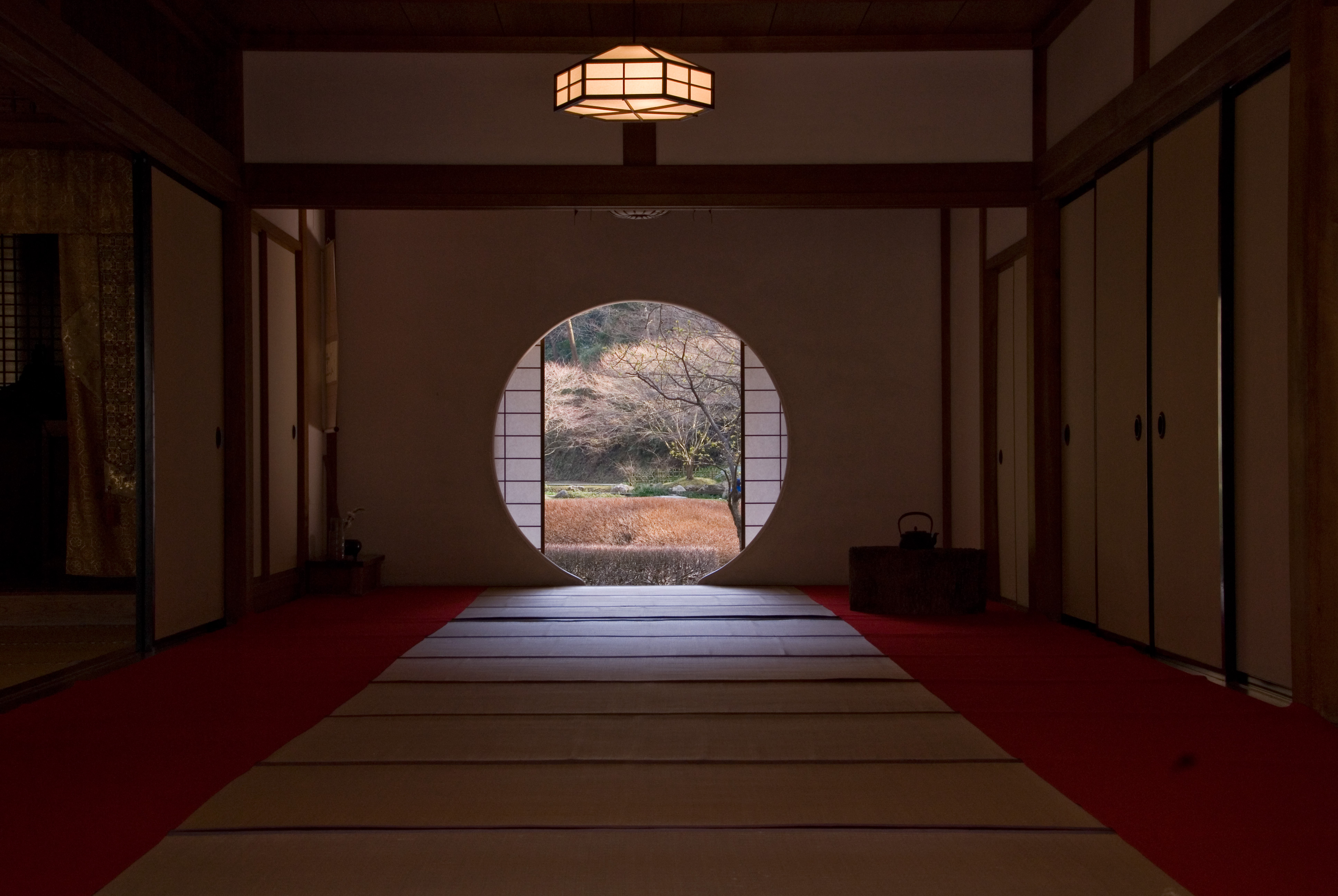 Meigetsu-in, Kita-kamakura, The Main Hall and its round window